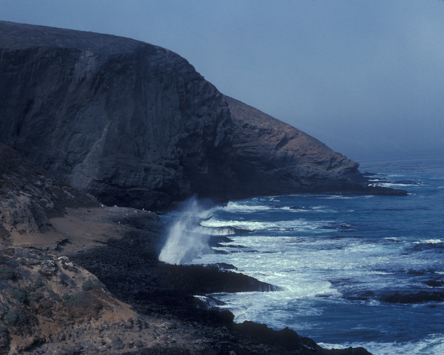 Cliff coast of Santa Barbara Island, Channel Islands, California. Original Description: A short hike to the Sea Lion Rookery reveals the essence of the park--tremendous coastal views, dense sea bird and pinniped rookeries, distinctive island flora and fauna, and isolation.